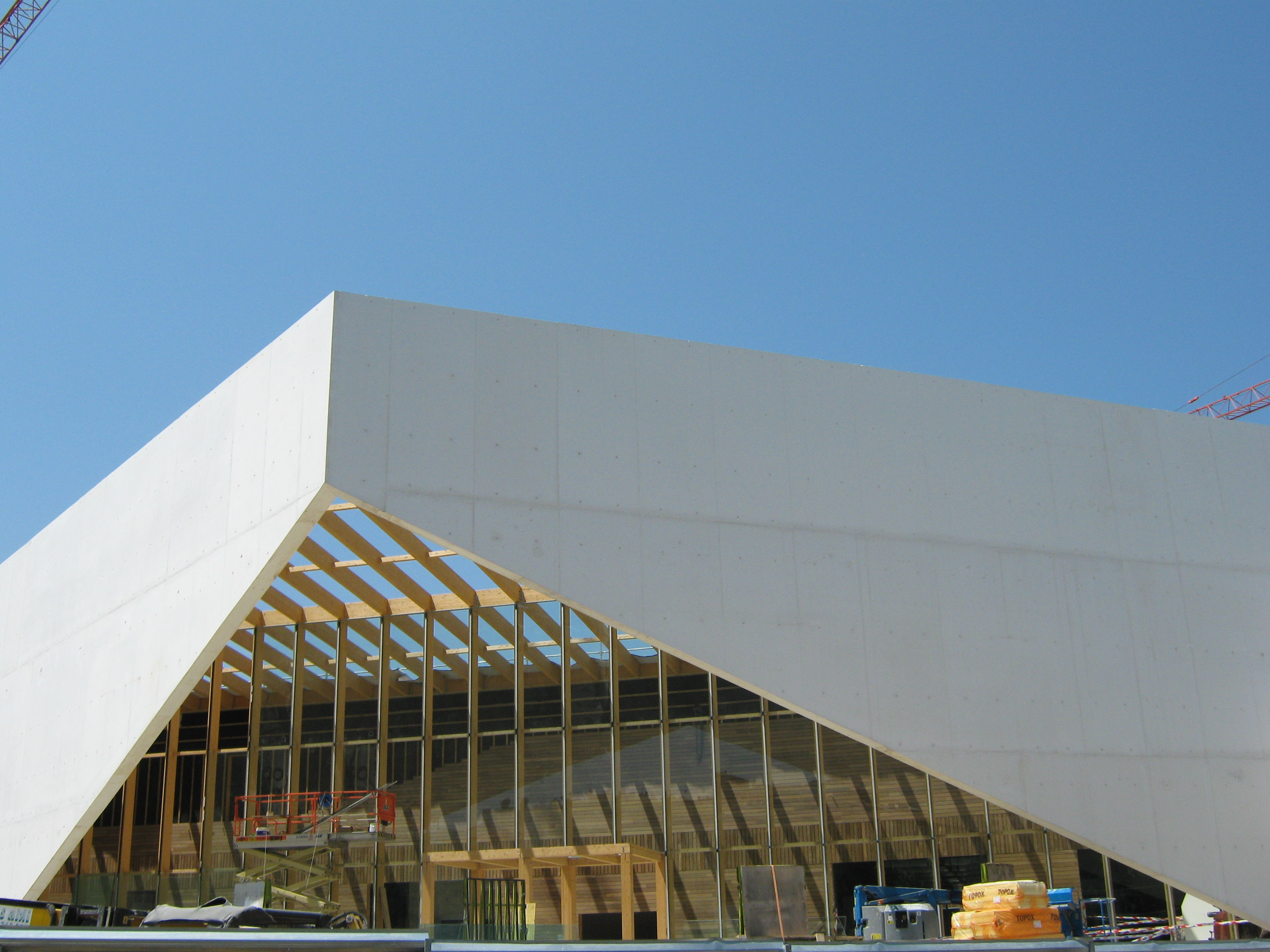 Future library of the University of Basque Country, in Donostia-San Sebastián (Spain)